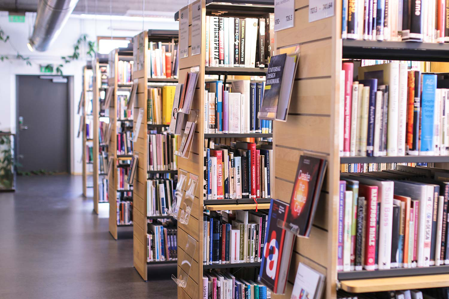 A glimpse of the NTNU University Library, Gjøvik branch. Norwegian University of Science and Technology, Gjøvik